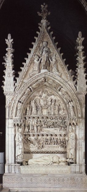 Tomb of Dagobert, Saint Denis Basilica